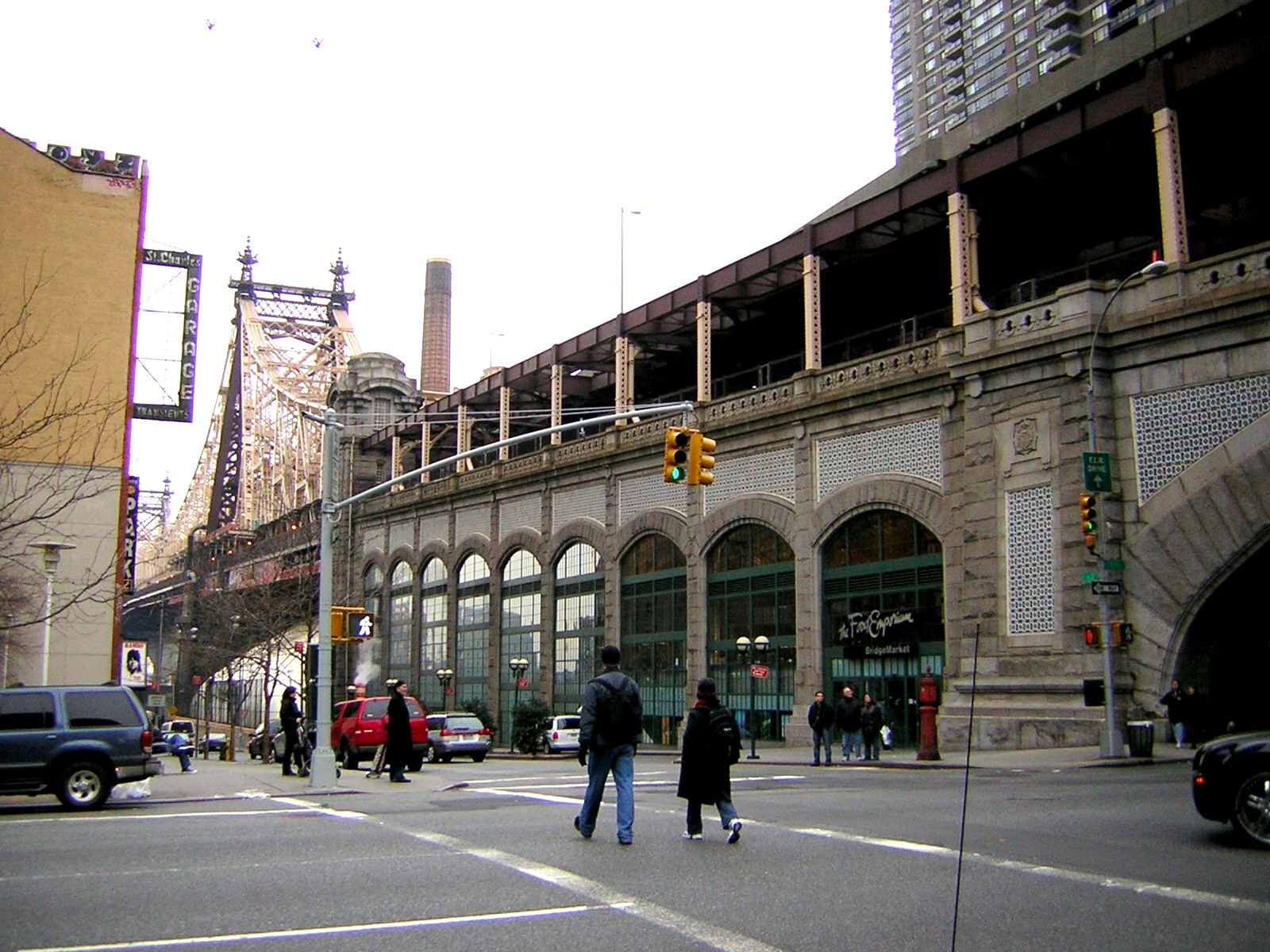 Looking southeast across First Avenue (Manhattan) and 60th Street at north side of Bridgemarket, site of Food Emporium.